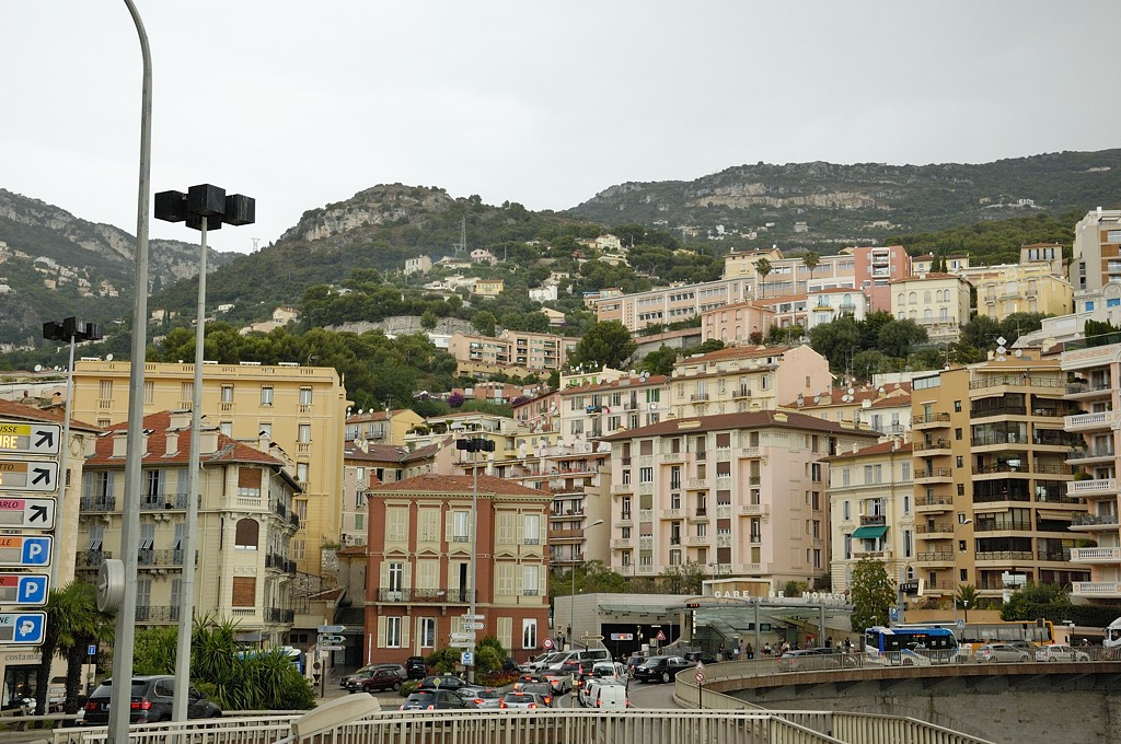 Boulevard du Jardin Exotique, Monaco - looking towards one of the entrances of Monaco train station (gare de Monaco) and behind it the border to France. The view line also shows the border between two Monegasque wards: Moneghetti and the newly (2013) created ward of Ravin de Sainte-Dévote.